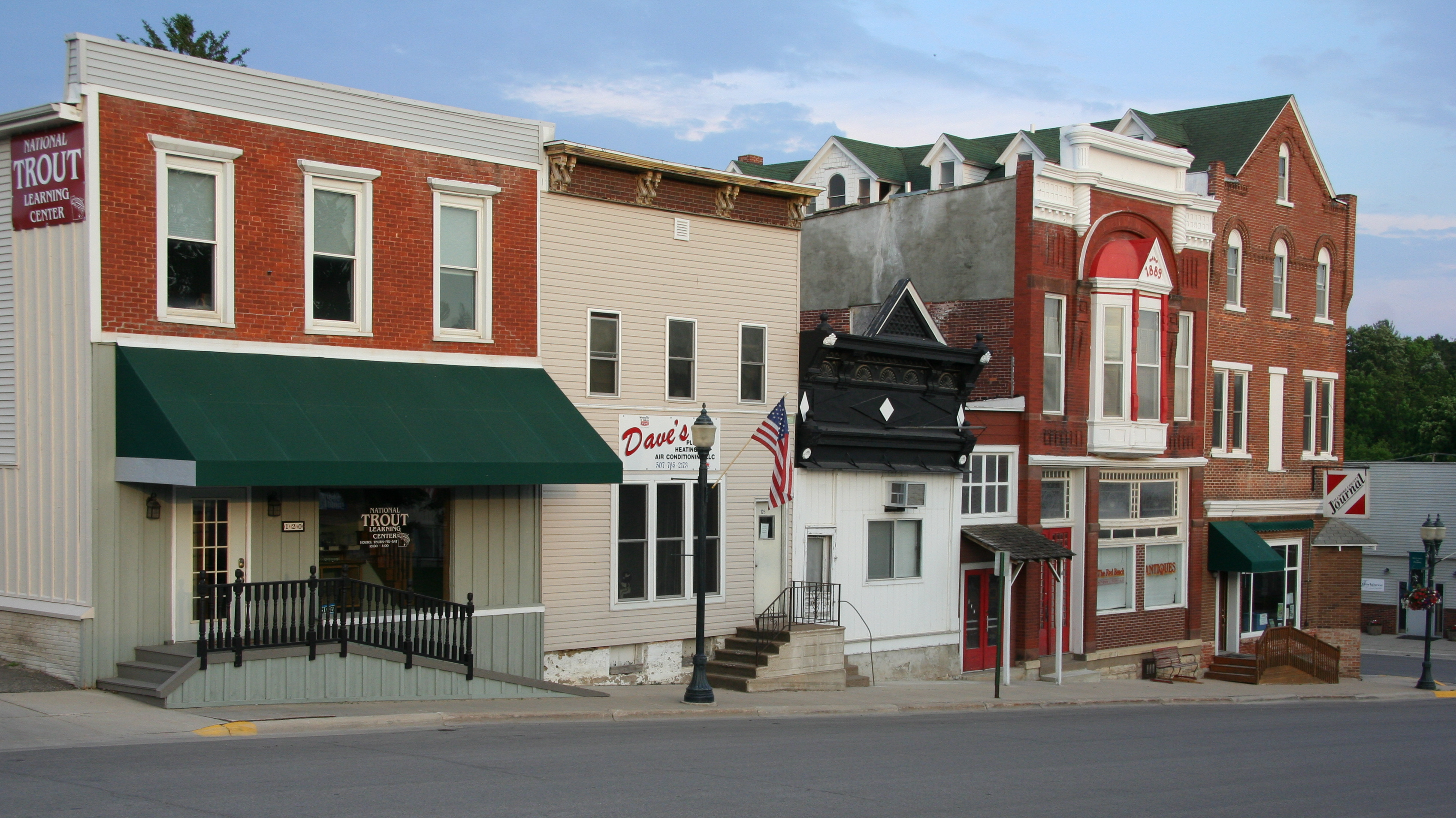 The National Trout Learning Center (left) and a block of commercial buildings seen from the east side of the Fillmore County Courthouse in Preston, Minnesota